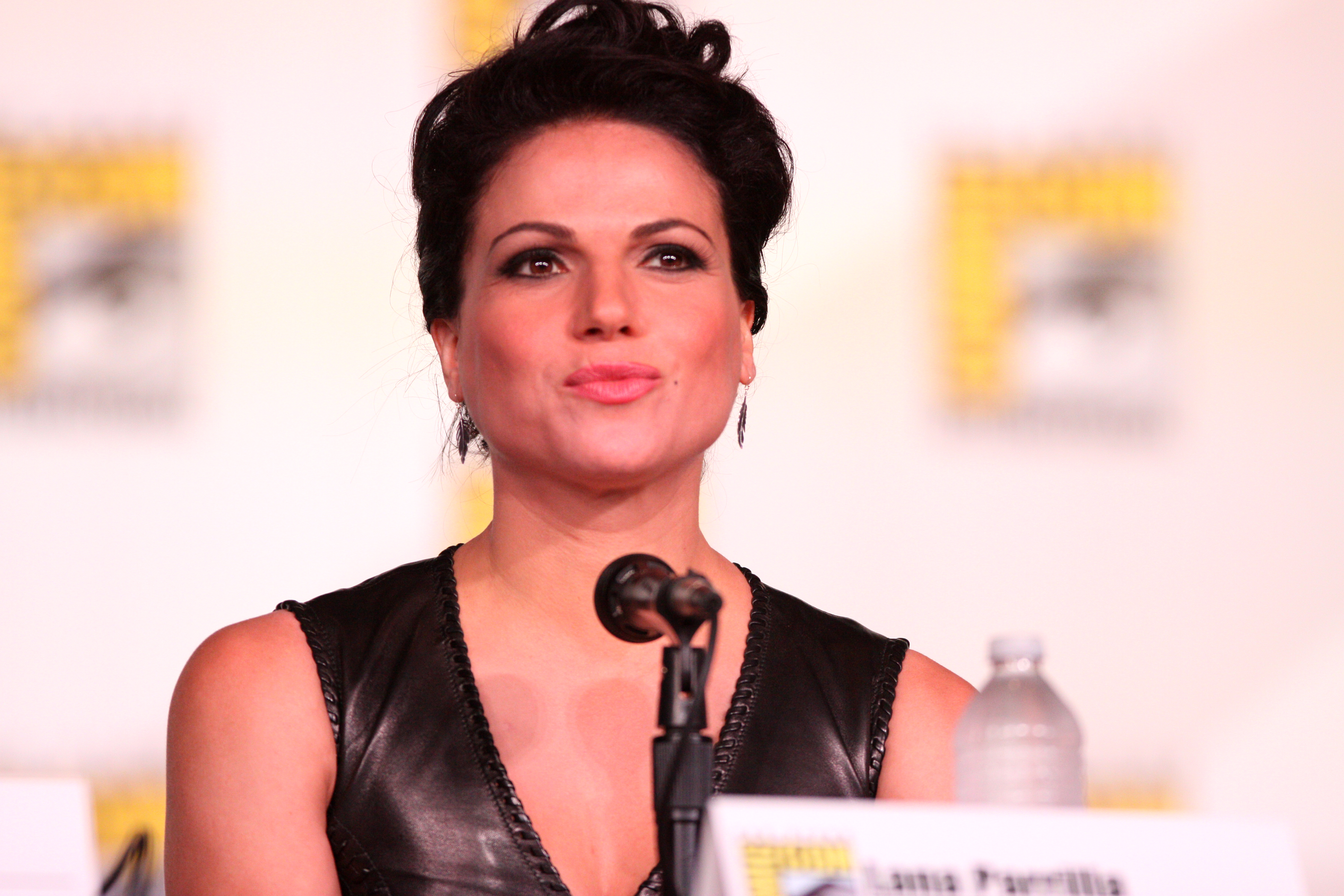 Lana Parrilla speaking at the 2012 San Diego Comic-Con International in San Diego, California.